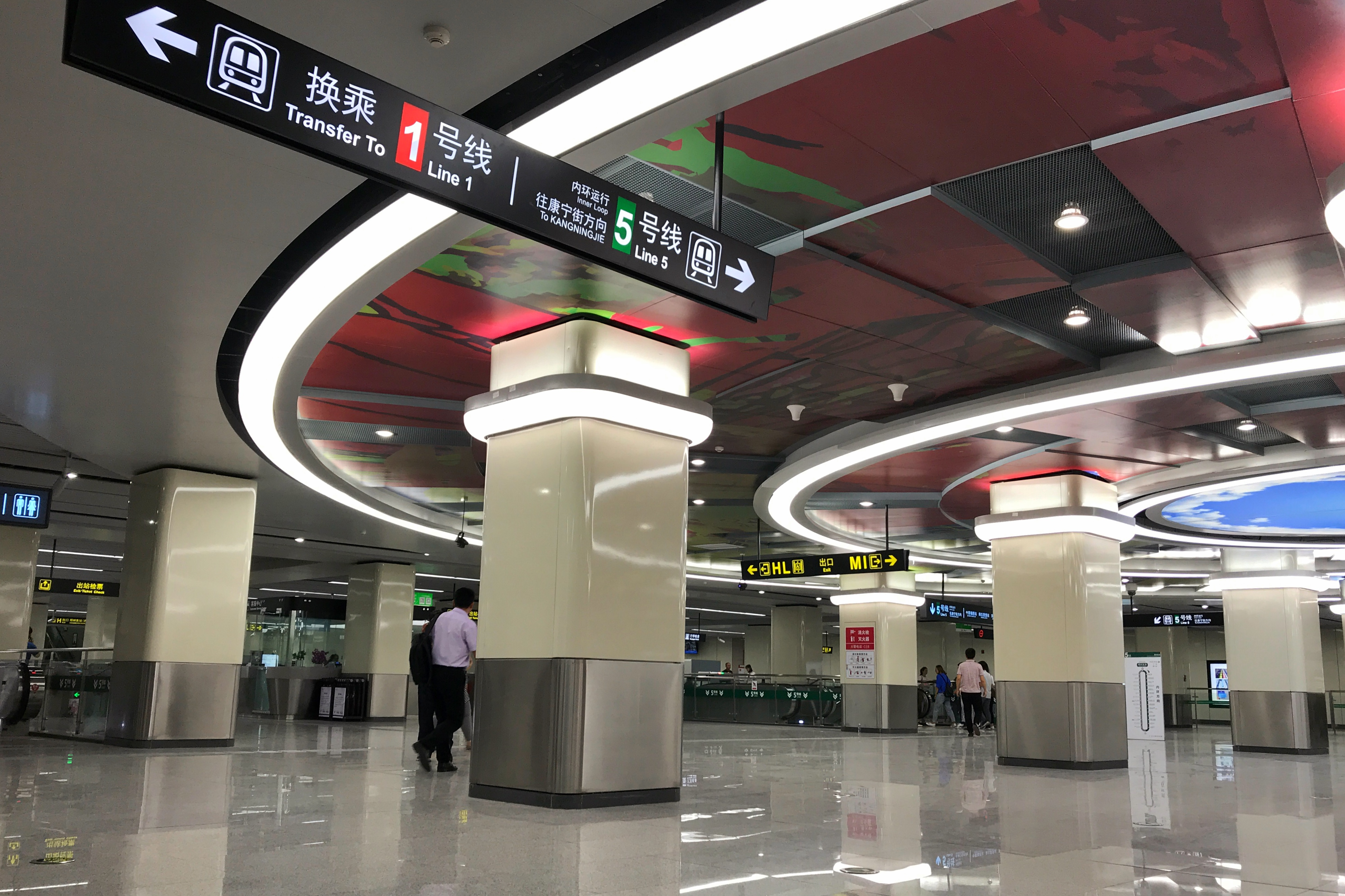 Concourse of Zhengzhou East Railway Station (Metro)